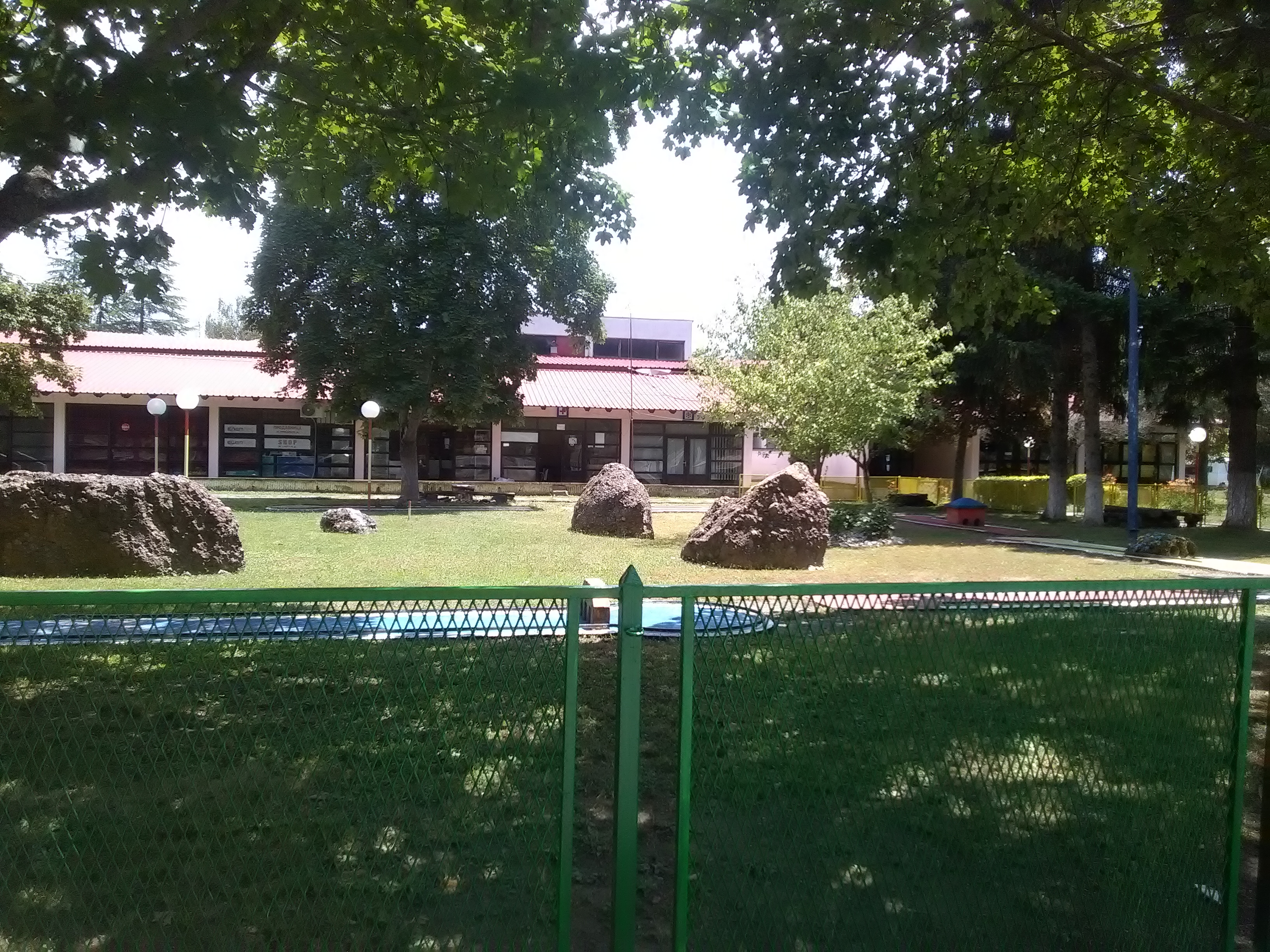 Autocamp Livadista 1